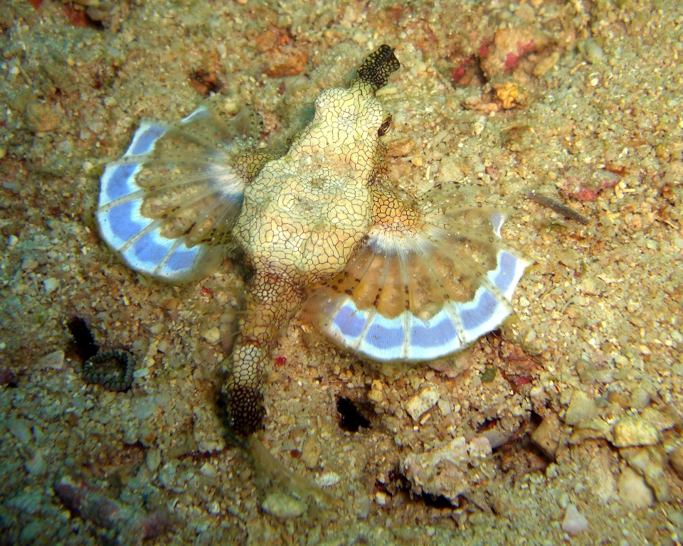 Poisson pégase (Dragon de mer) ; Eurypegasus draconis de l’océan Indien Short dragonfish (GB), Short seamoth (AUST) Fait partie des Pegasidae (pégases, poissons-dragons) leurs corps sont aplatis et couverts de plaques osseuses, et le museau est en forme de trompe From Mayotte island